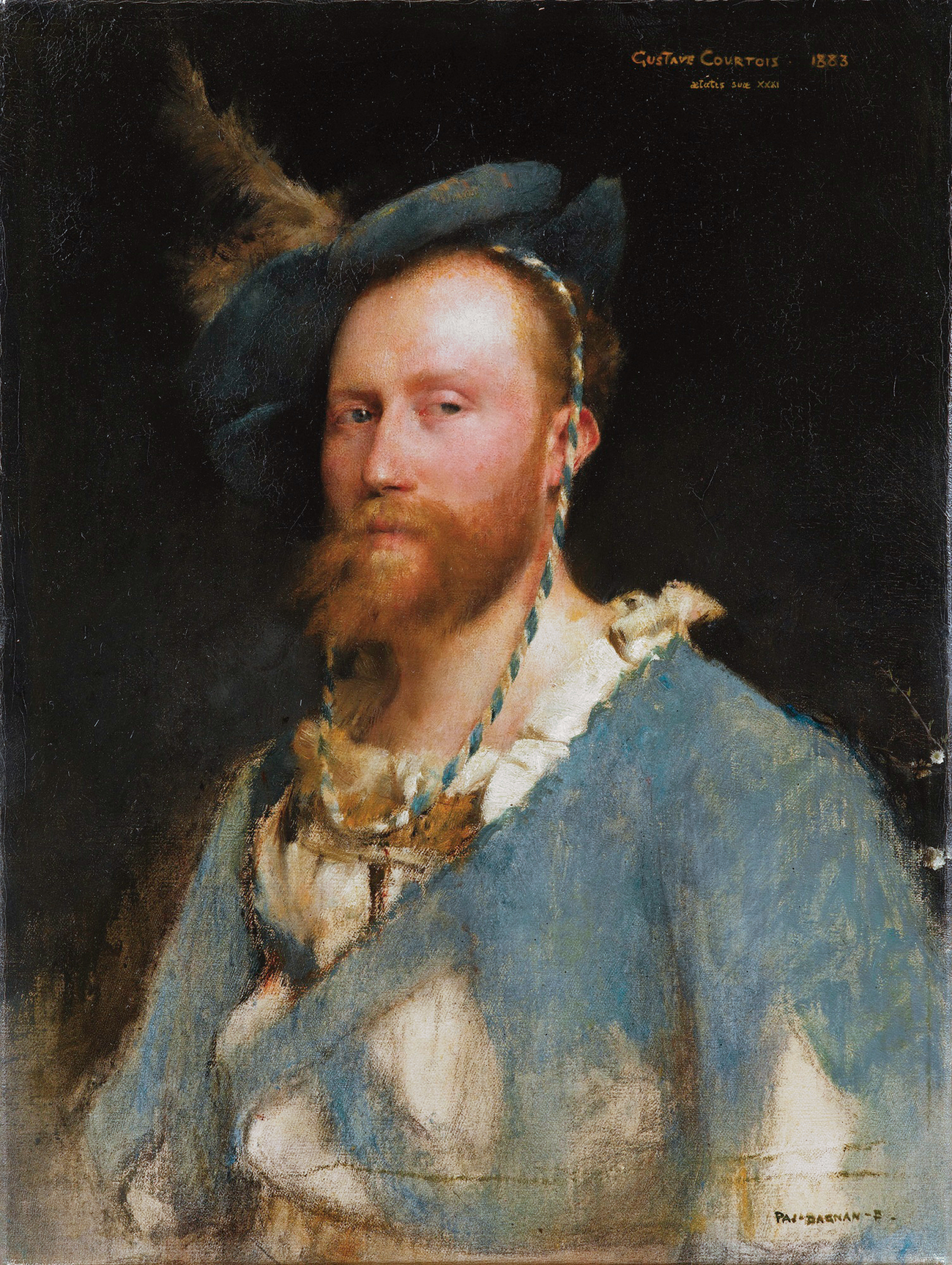 Gustave Courtois oil on canvas 32.5 x 24.5 cm signed b.r.: PAD·DAGNAN·B inscribed t.r.: Gustave Courtois 1883 / Aetatis Suae XXXI